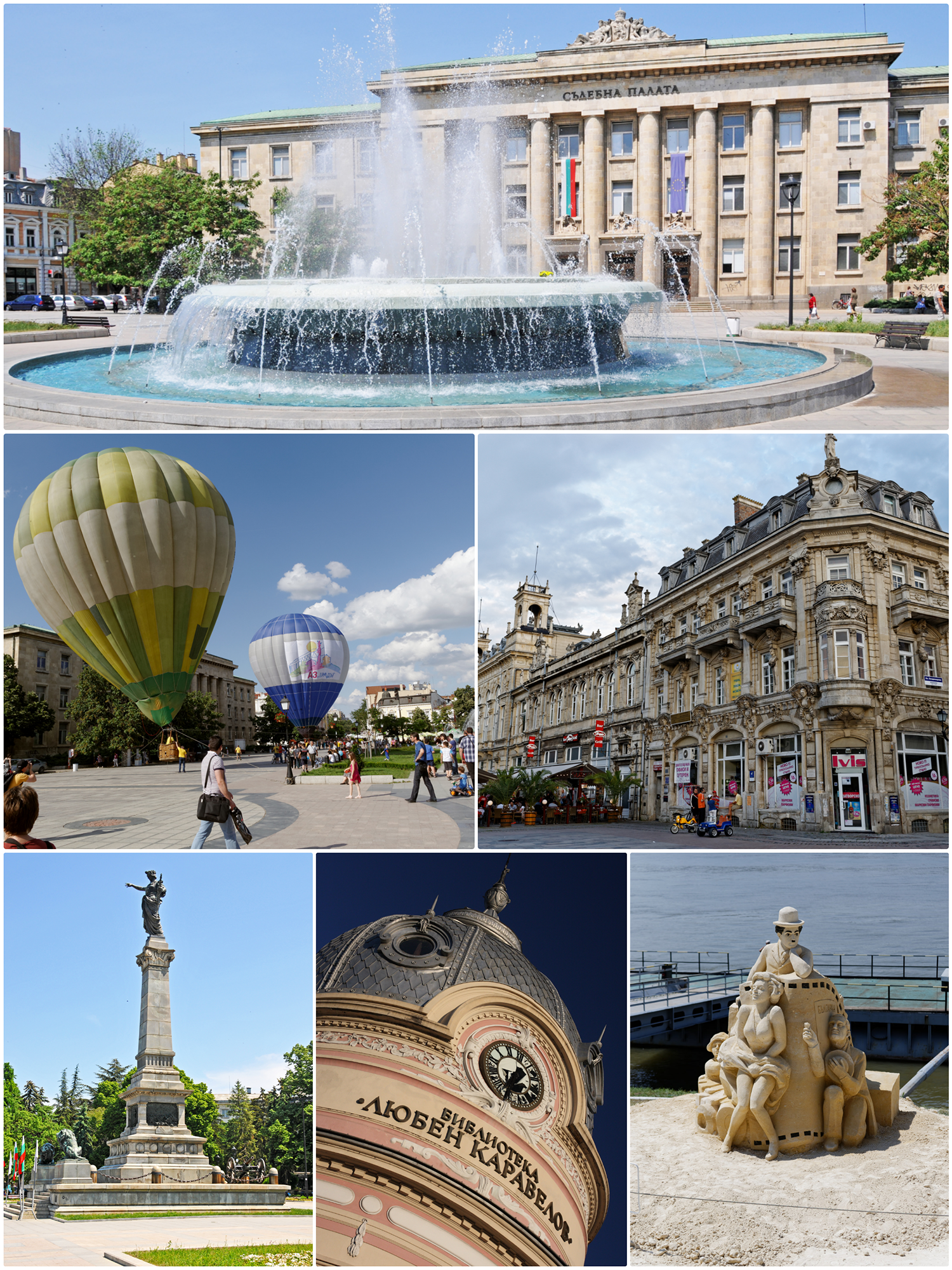 A collage with views from Ruse, Bulgaria